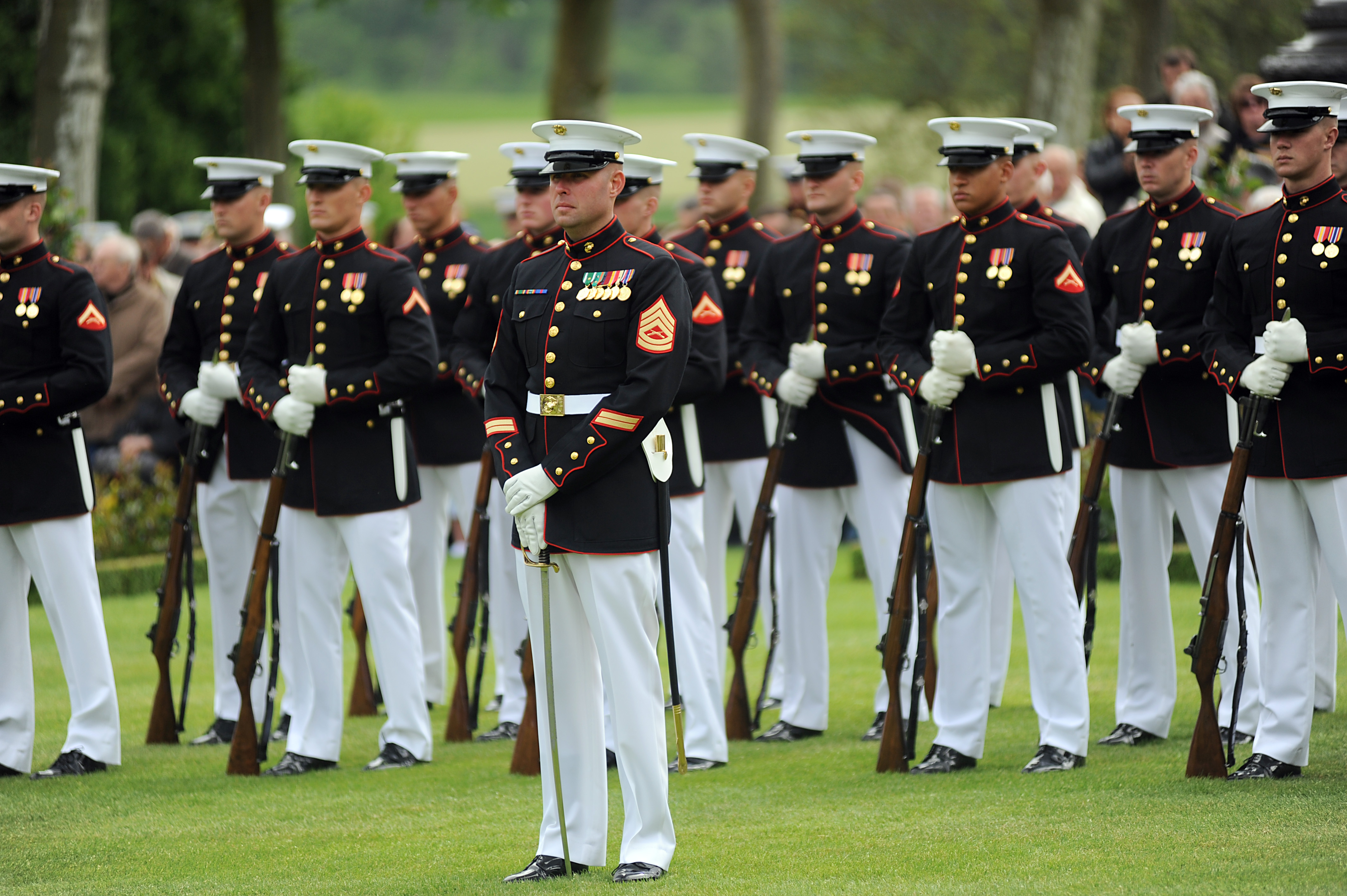 GySgt. Jeremy P. Johnson, the platoon sergeant of the United States Marine Silent Drill Platoon, stands at ceremonial parade rest during the ceremony marking the 92nd anniversary of the Battle of Belleau Wood in Belleau, France May 30. (Photo by Cpl. Bobby J. Yarbrough)